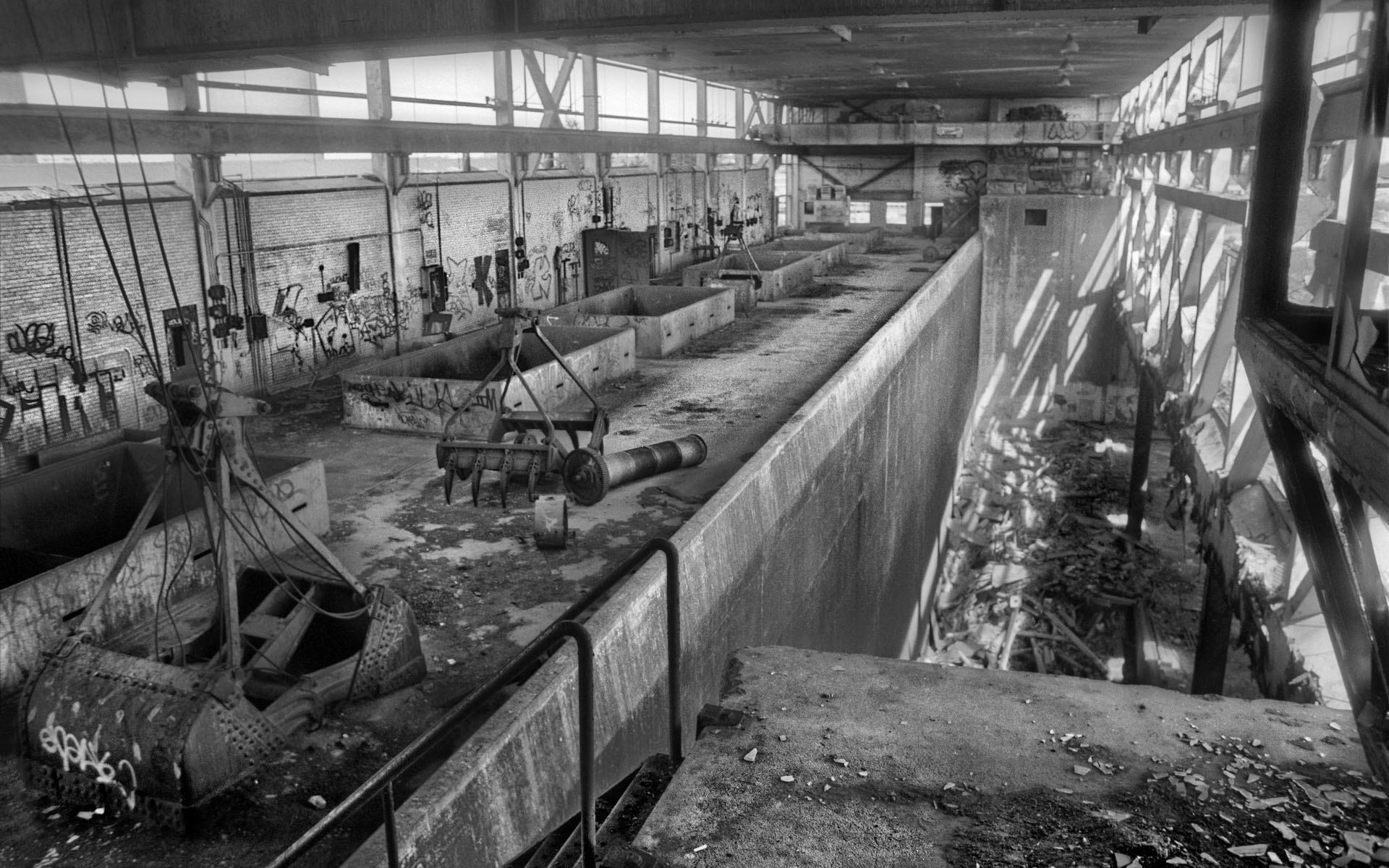 The inside of the South Bay Incinerator on South Bay Avenue in Roxbury.